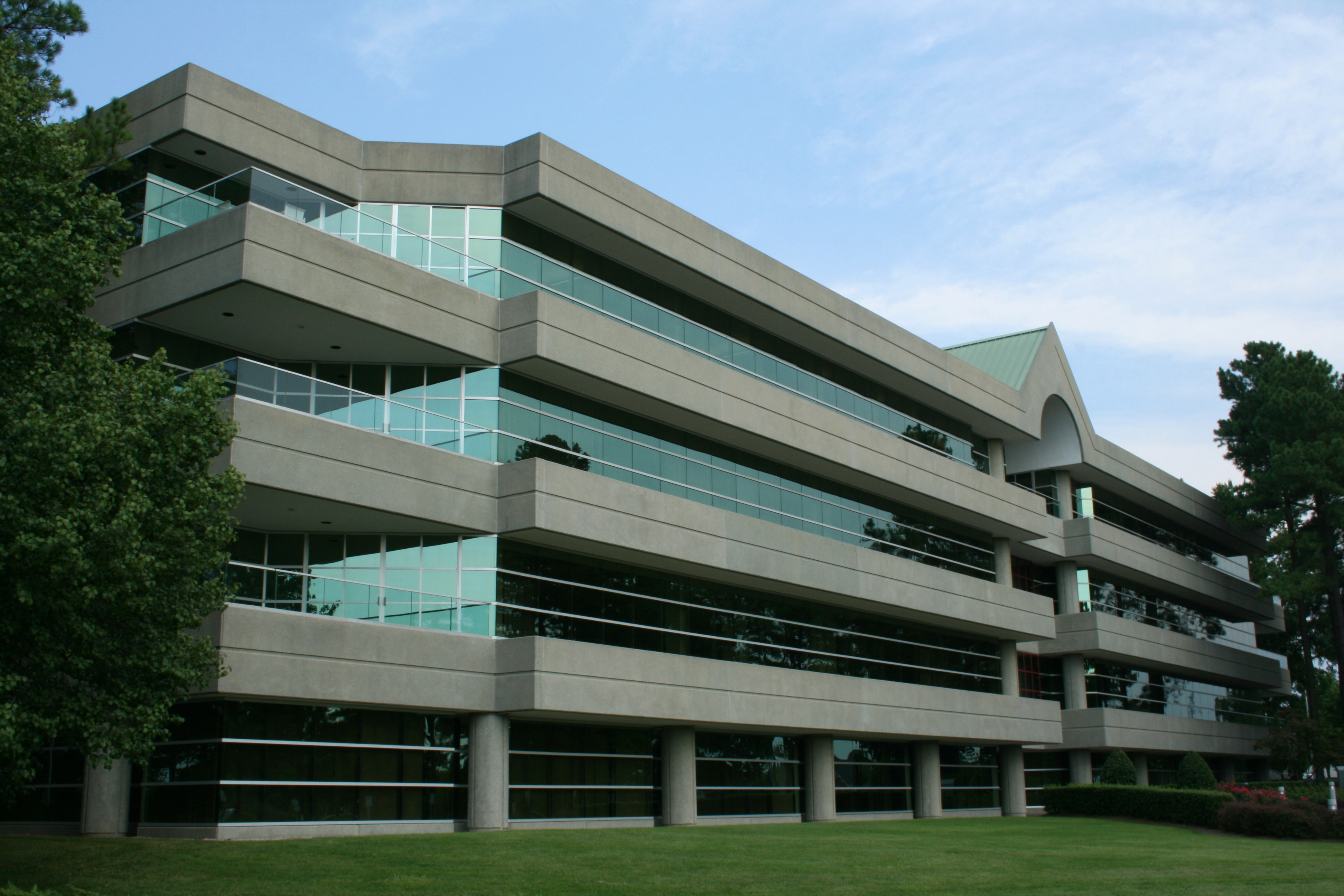 Central Park West office complex, owned by CB Richard Ellis Group, Inc., at 5001 South Miami Boulevard in Durham, North Carolina.